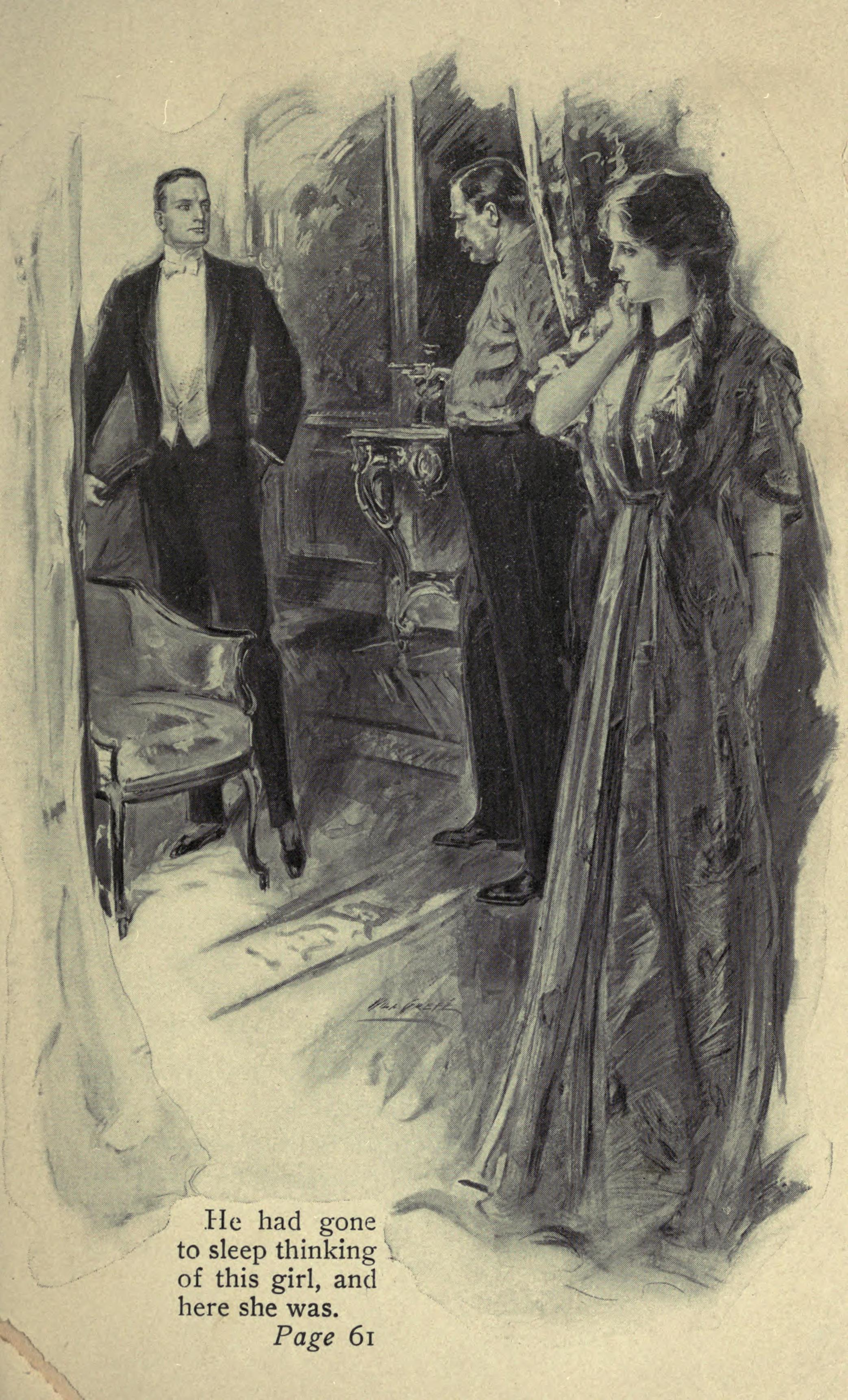 Illustration from page 61 of Wodehouse, P.G. (1910). The Intrusion of Jimmy. New York: W.J. Watt & Co.